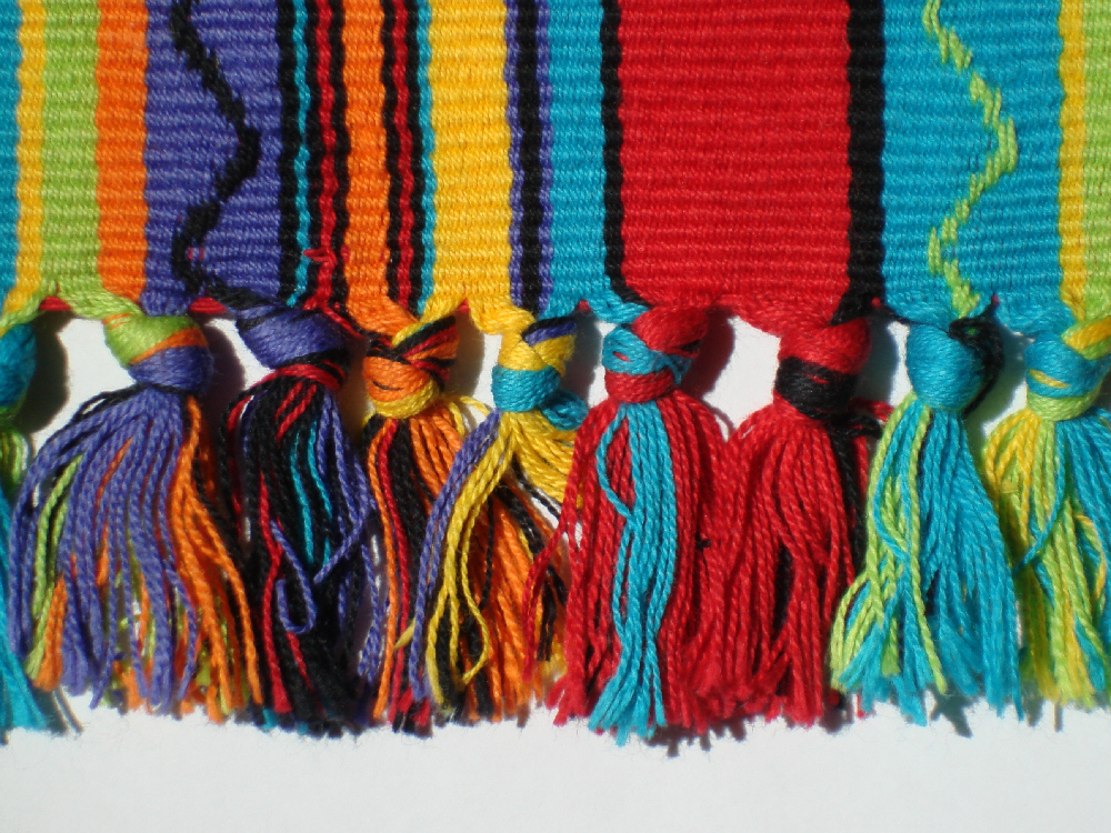 Colored fringes on a place mat